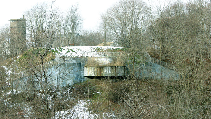 This photo, taken on December 7, 2009, looks northwesterly at the empty casemate of Battery Gardner, Gun 1. The opening of the gun position has been banked with earth to try and stop visitors from entering the casemate. The tower at left rear is a WW2-era fire control tower with three observation levels. The top one of these was the Battery Commander's position for Btty Gardner, the next middle one one was a base end/spottig station for Btty McCook on Peddocks Island and Btty Whipple on Lovells Island, and the lowest one was an observation post for the Northern Group of the Boston Harbor defenses. The tower was built with an attached frame house that housed observation crew members. Today, that house has been remodeled as a private residence and is still attached to the tower, which is also privately owned.